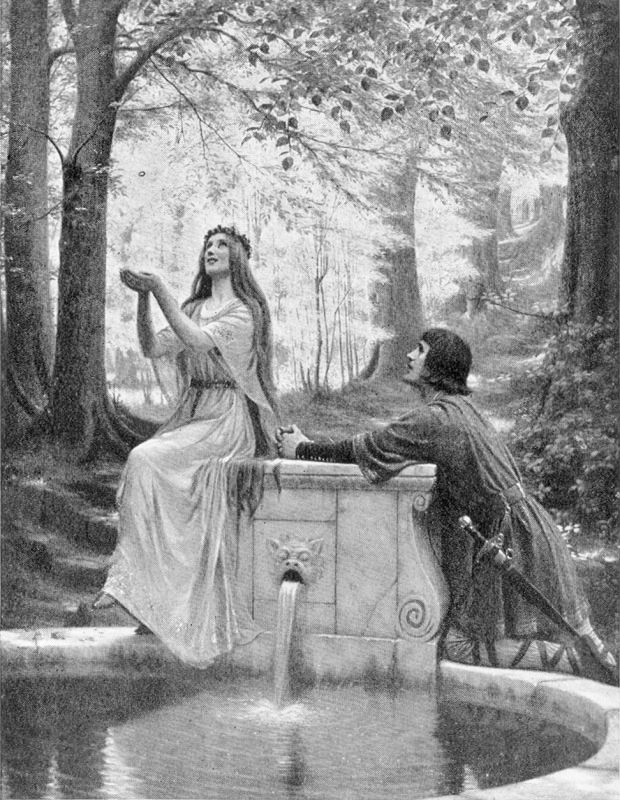 Pelleas and Melisande